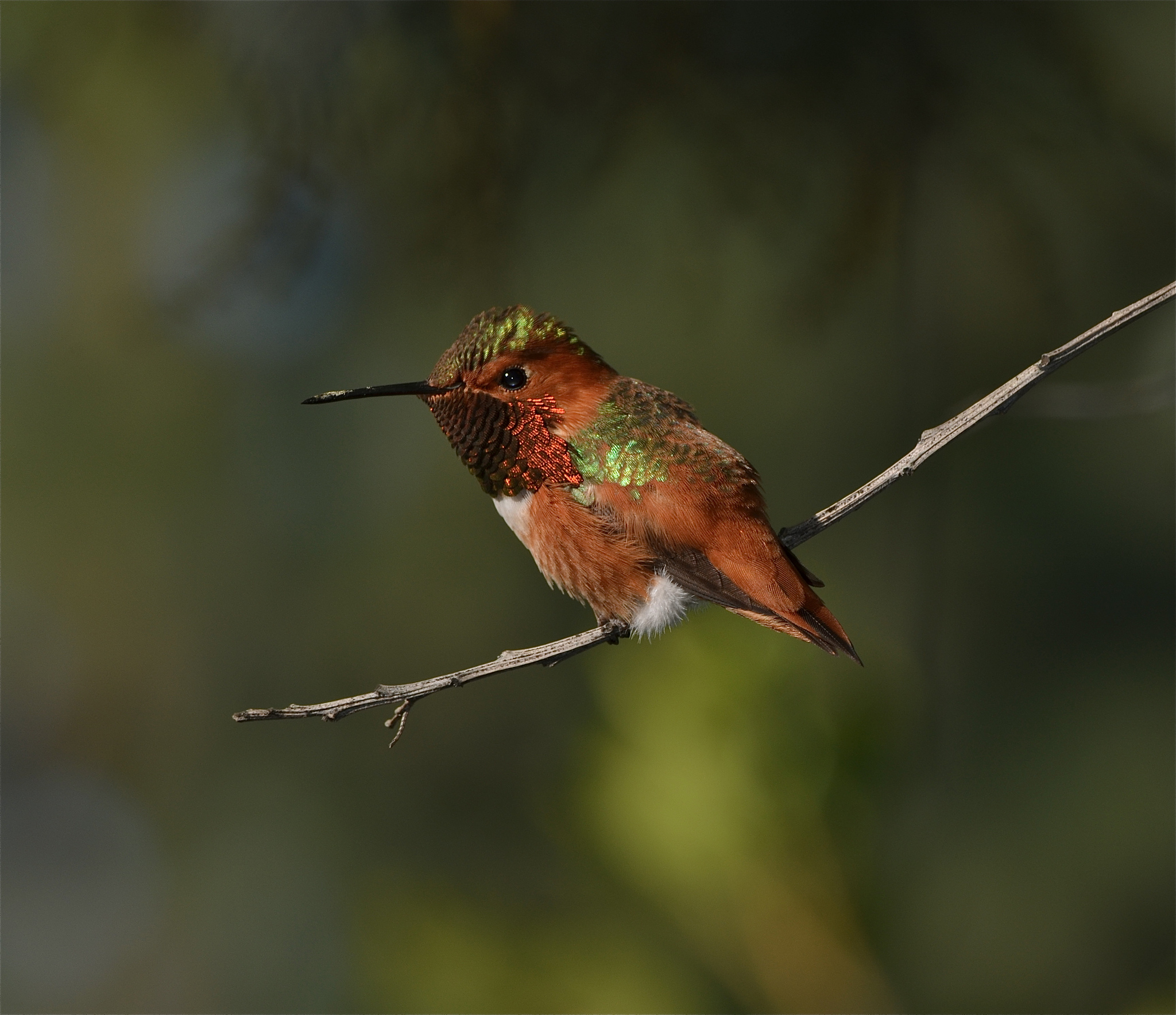 Rufous Hummingbird Perched